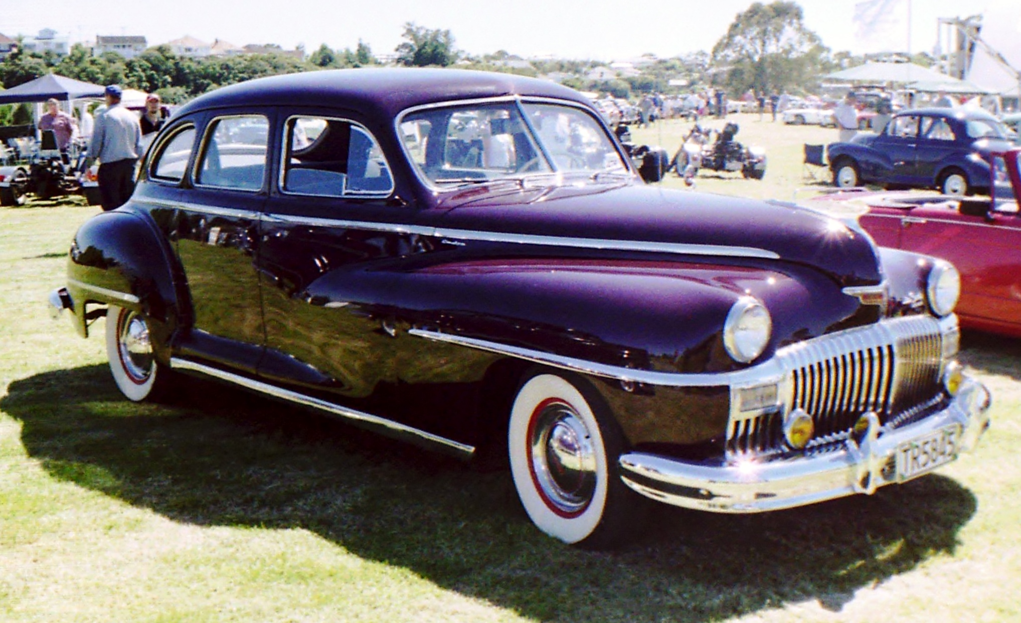 1948 De Soto Custom Fluid Drive